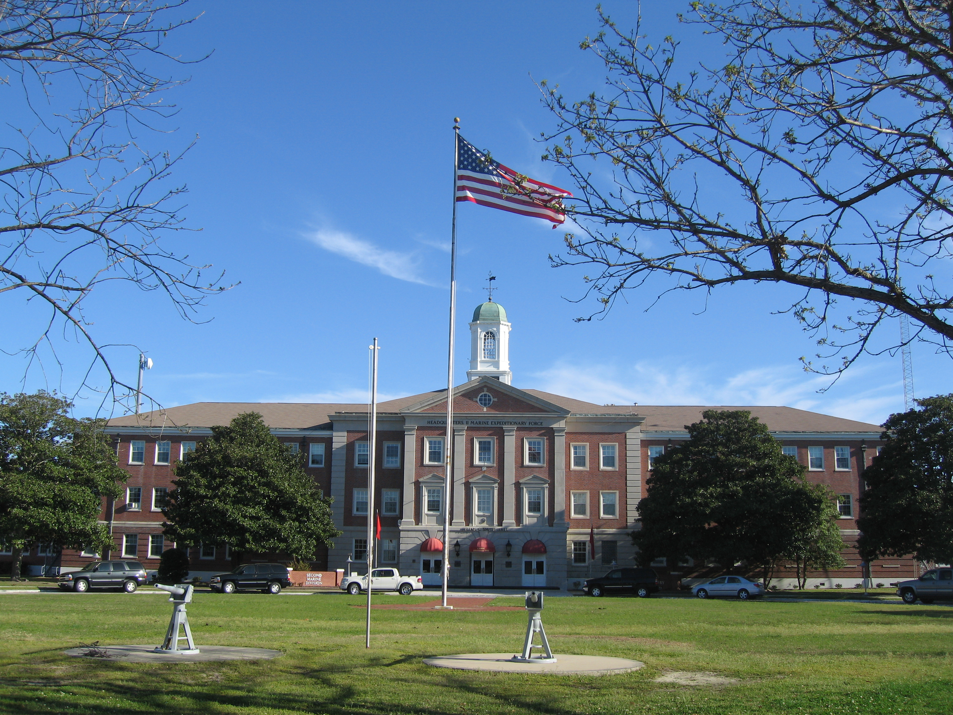 Front view of Julian C. Smith Hall, on Julian C. Smith Street, Marine Corps Base Camp Lejeune, North Carolina. This building was named after General Julian C. Smith, former Commanding General of the 2nd Marine Division during World War II. The building houses the headquaters of the II Marine Expeditionary Force and the 2d Marine Division.